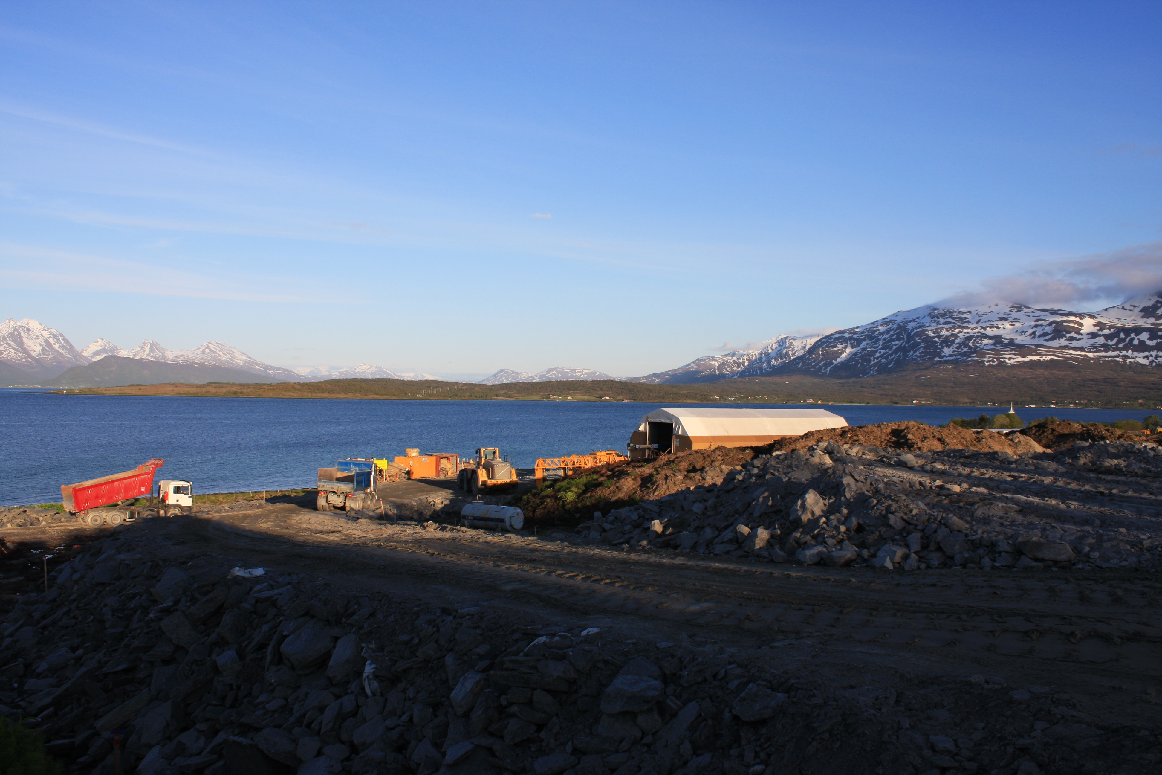 The construction site of the undersea tunnel (Ryaforbindelsen) with the peninsula Malangshalvøya in the background.